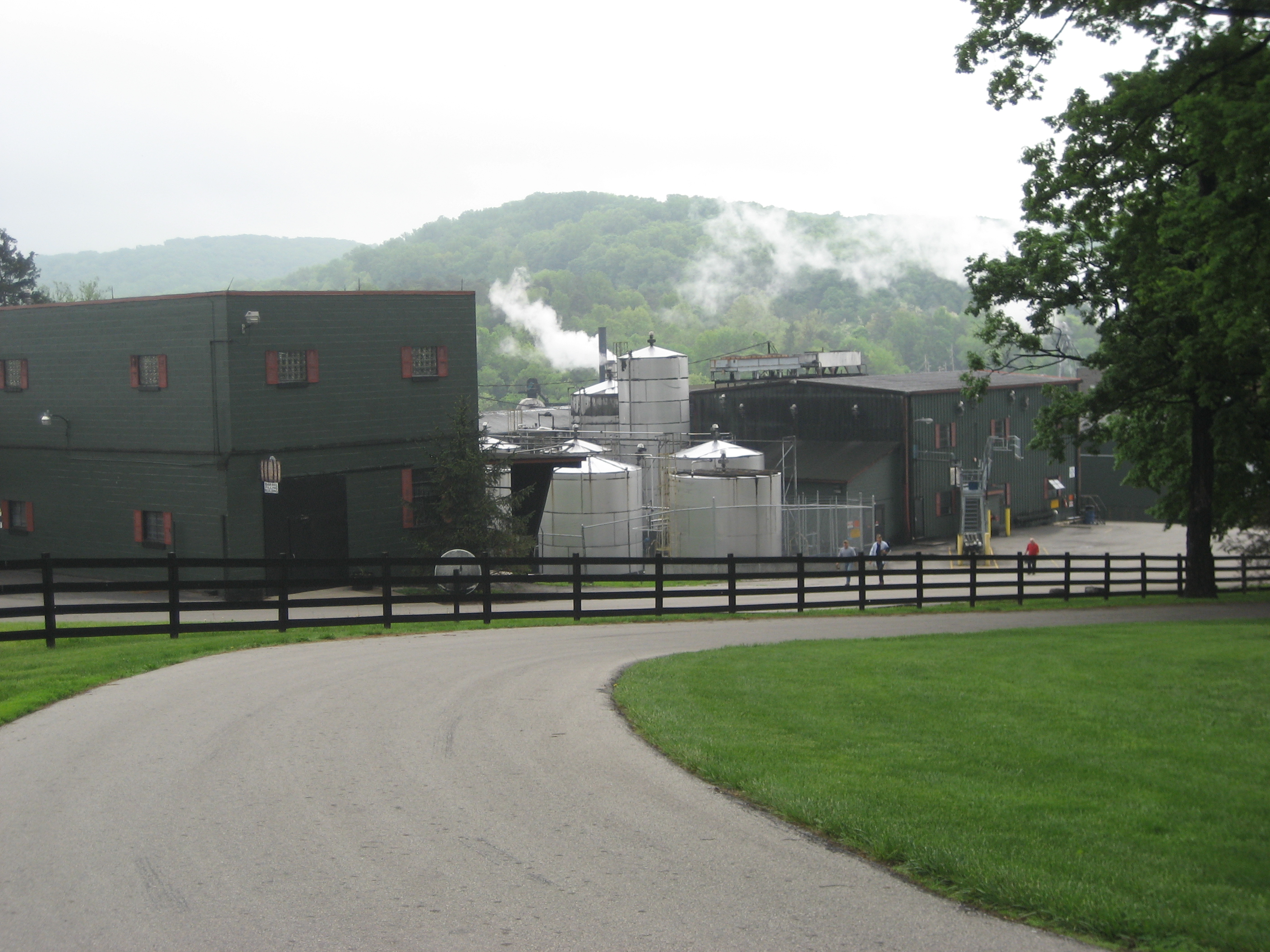 View of Jim Beam distillery from the Beam House.